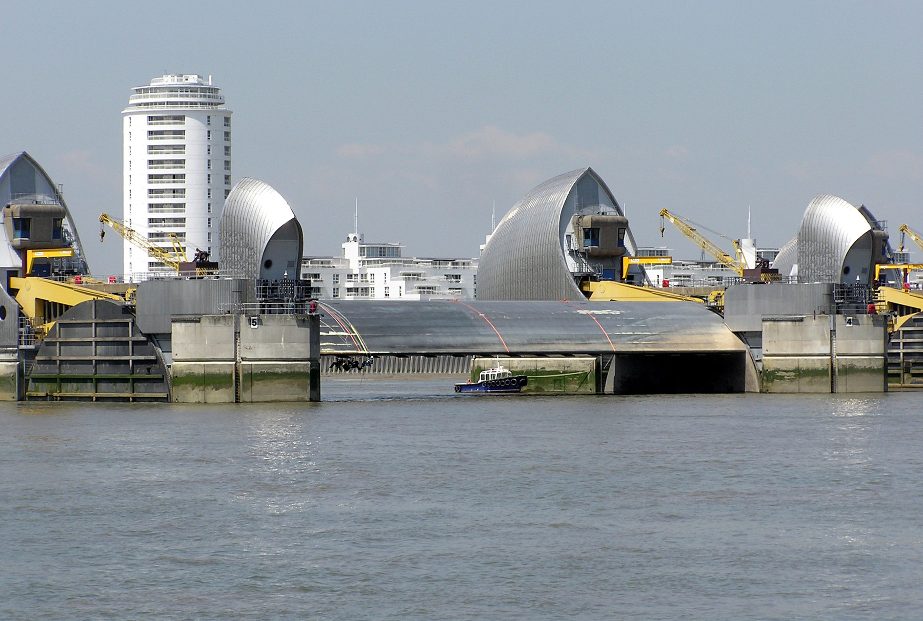 A distant view of workers roped to a barrier. I assume the barrier is in a maintenance position. Photographed by Adrian Pingstone in June 2005 and released to the public domain.